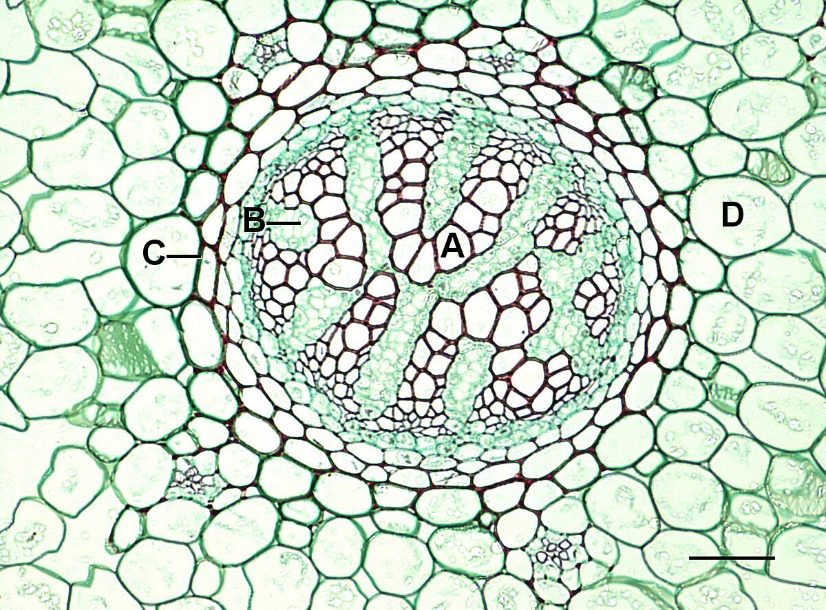 Photomicrograph of a Lycopodium stem. A-Xylem, B-Phloem, C-Endodermis, D-Cortex. Scale=0.1mm.